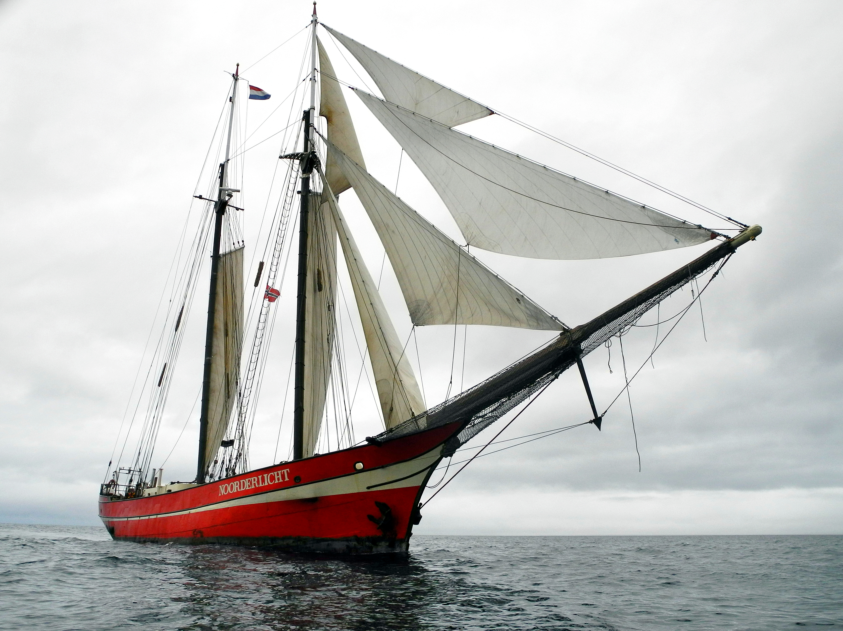 Schooner Noorderlicht sailing in the Isfjorden with seven out of its eight sails.